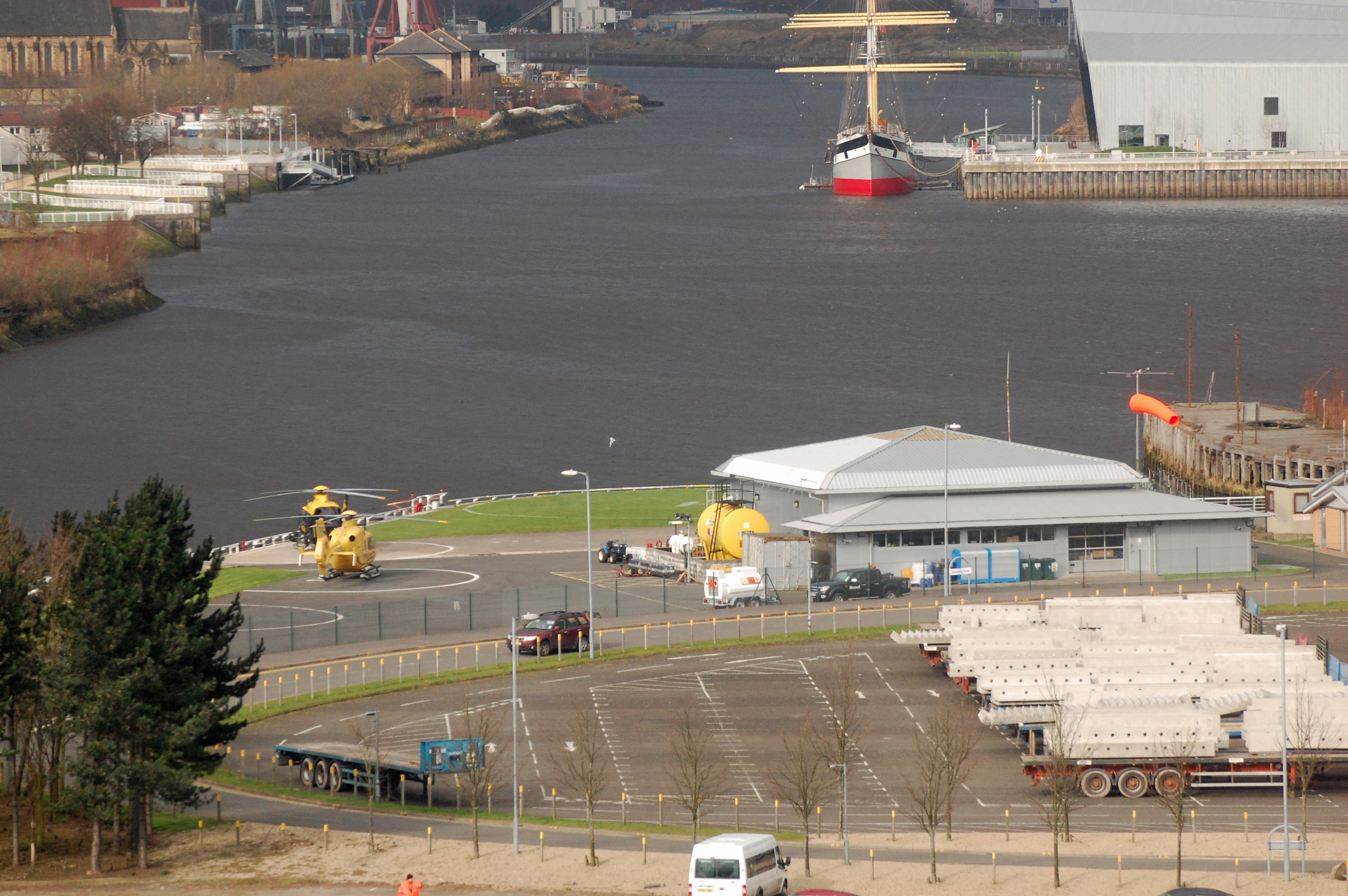 This is Glasgow City Heliport (EGEG), situated in Finnieston, Glasgow. Photo was taken from the nearby Crowne Plaza Hotel. Operated by Bond Air Services, resident units Police 51 and Helimed 5 are on the pad.